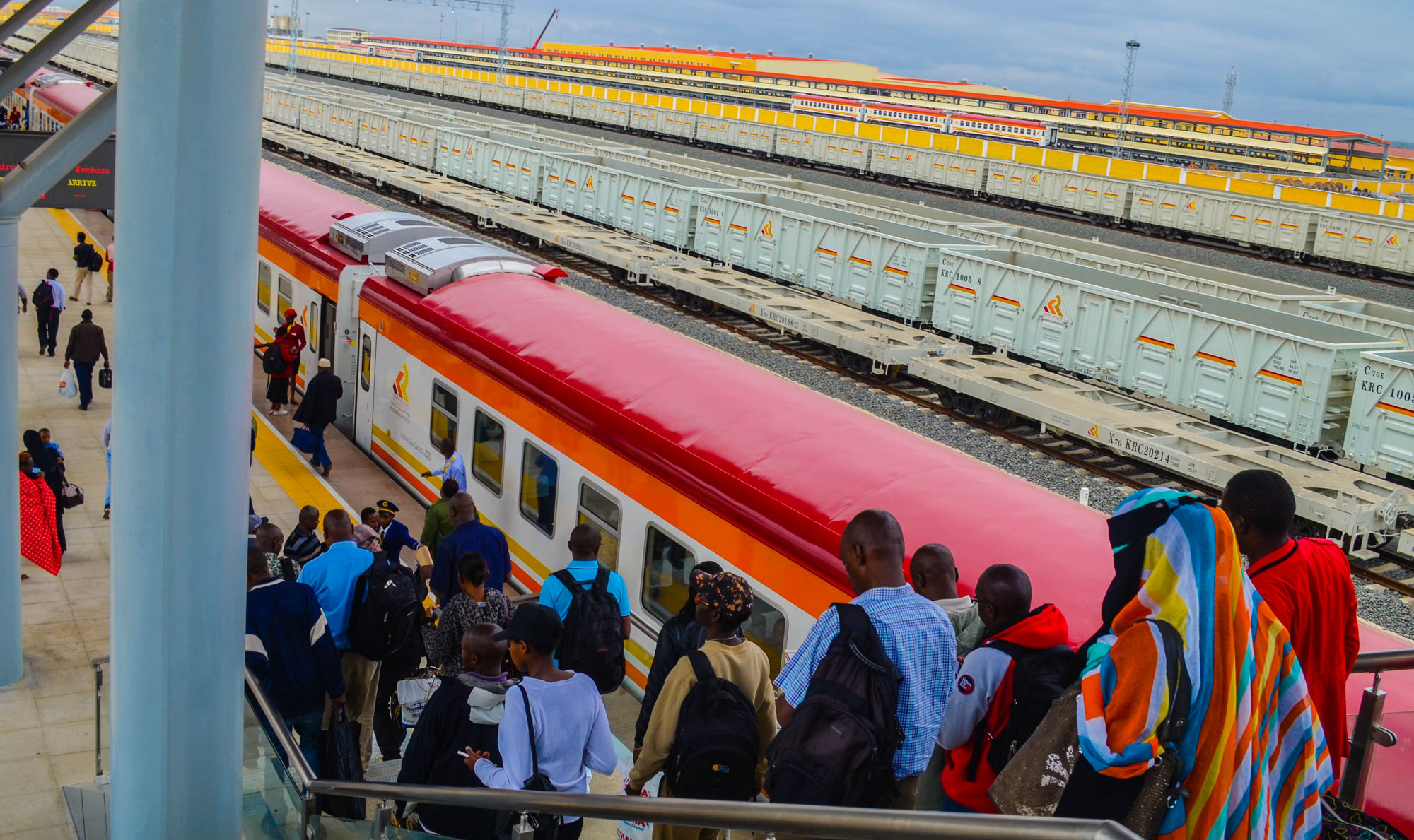 The days of the colonial-era metre-gauge Lunatic Express sleeper train taking 15 hours have ended. A new fast standard-gauge line opened between Nairobi & Mombasa on 31 May 2017. Passenger trains called the Madaraka Express now take just 4 hours 30 minutes This is an image with the theme "Africa on the Move or Transport" from: Kenya